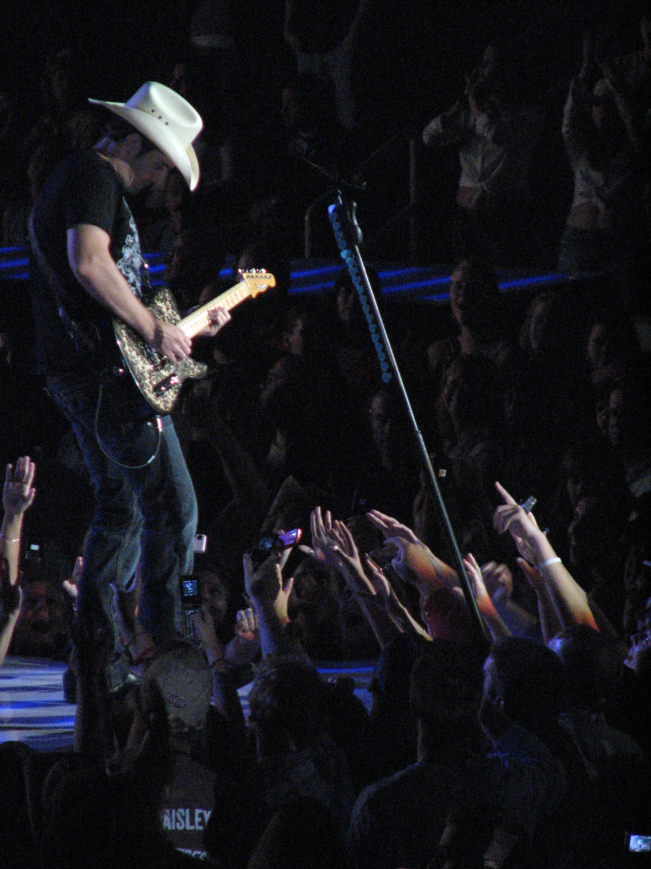 Brad Paisley performing live at the Duncan Donuts Center in Providence, Rhode Island, September 27, 2008